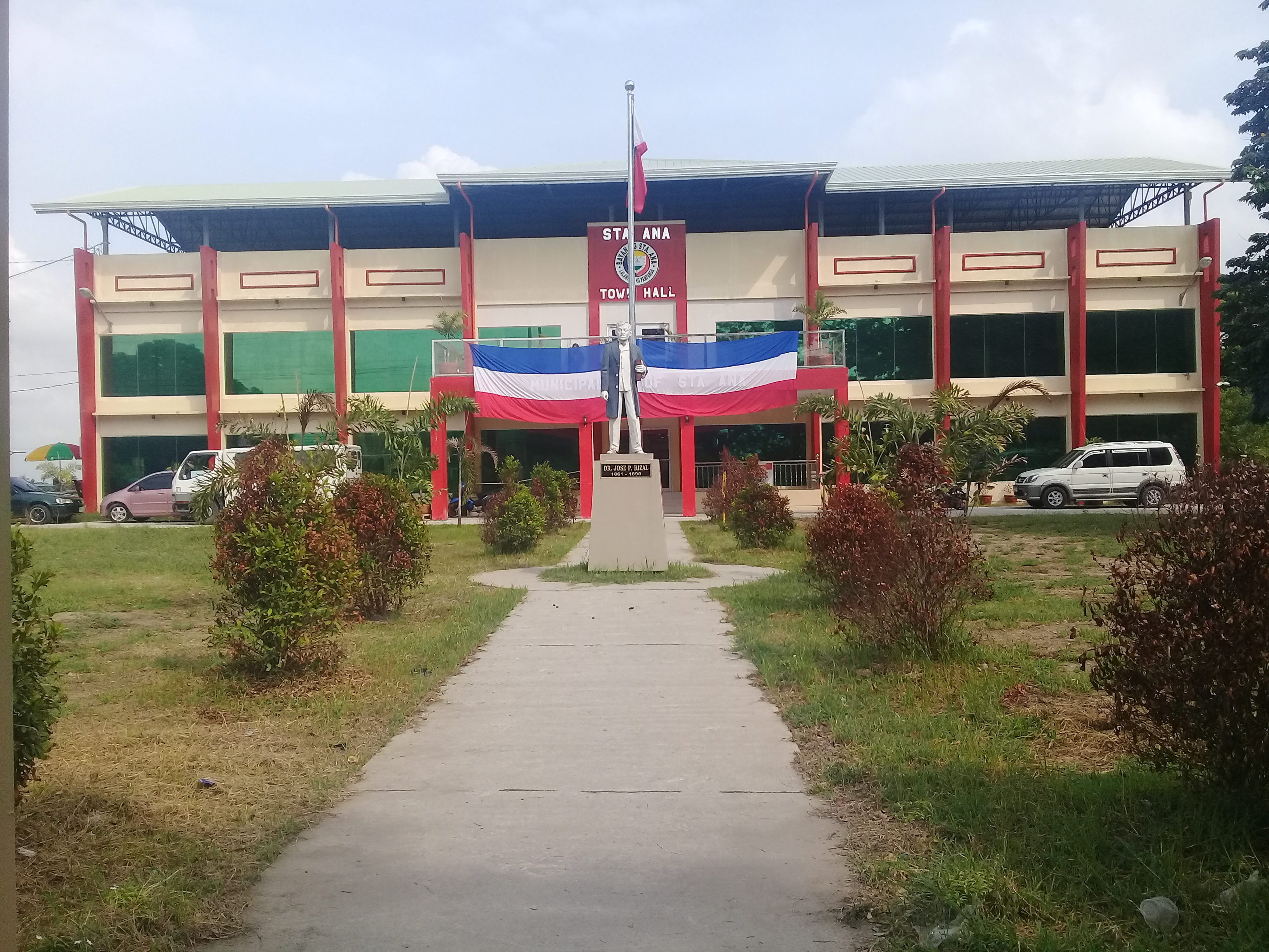 Isulung taya ing kekatamung balen pakamalan